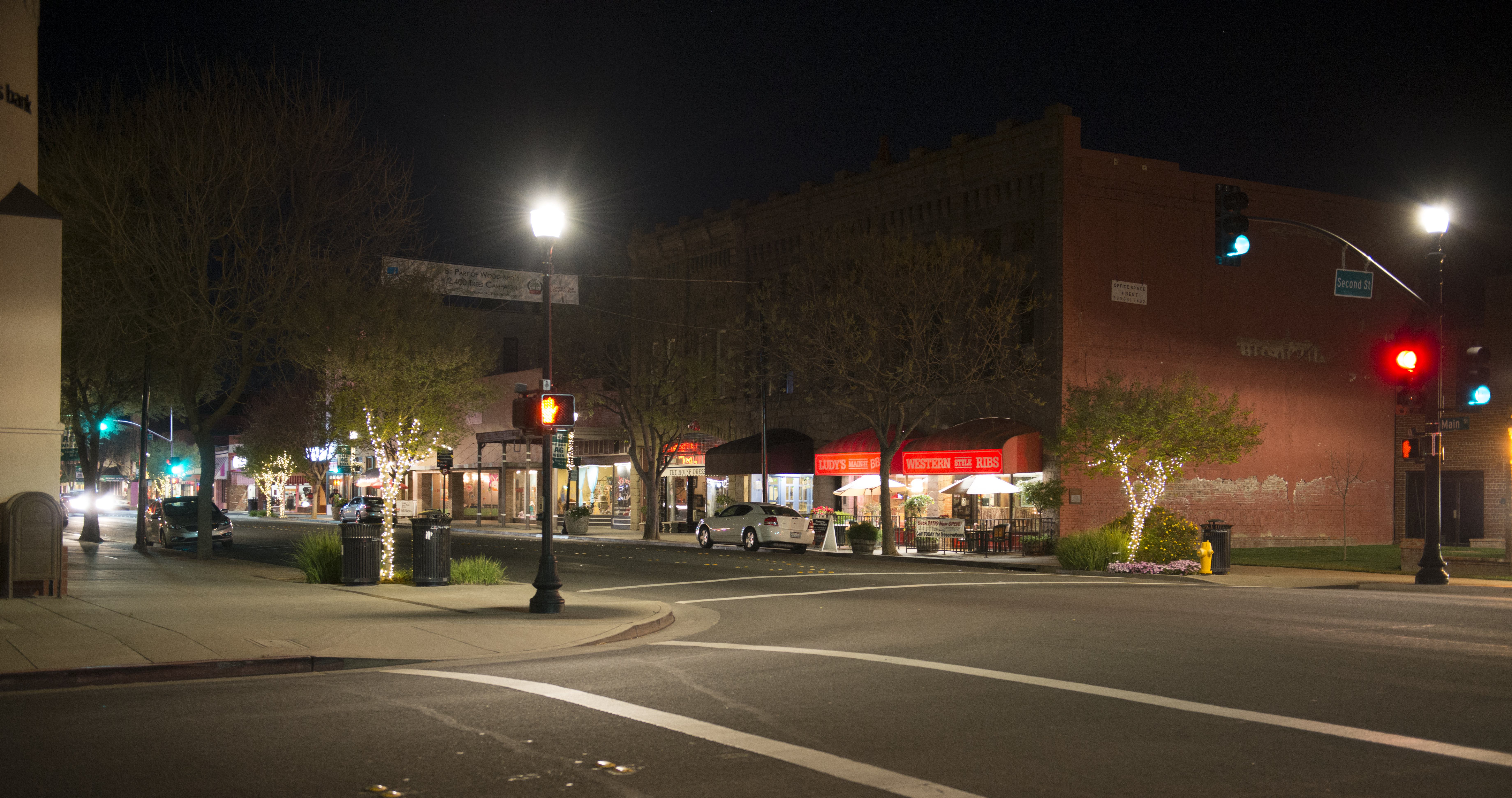 Downtown Woodland Night Scene Second and Main Street